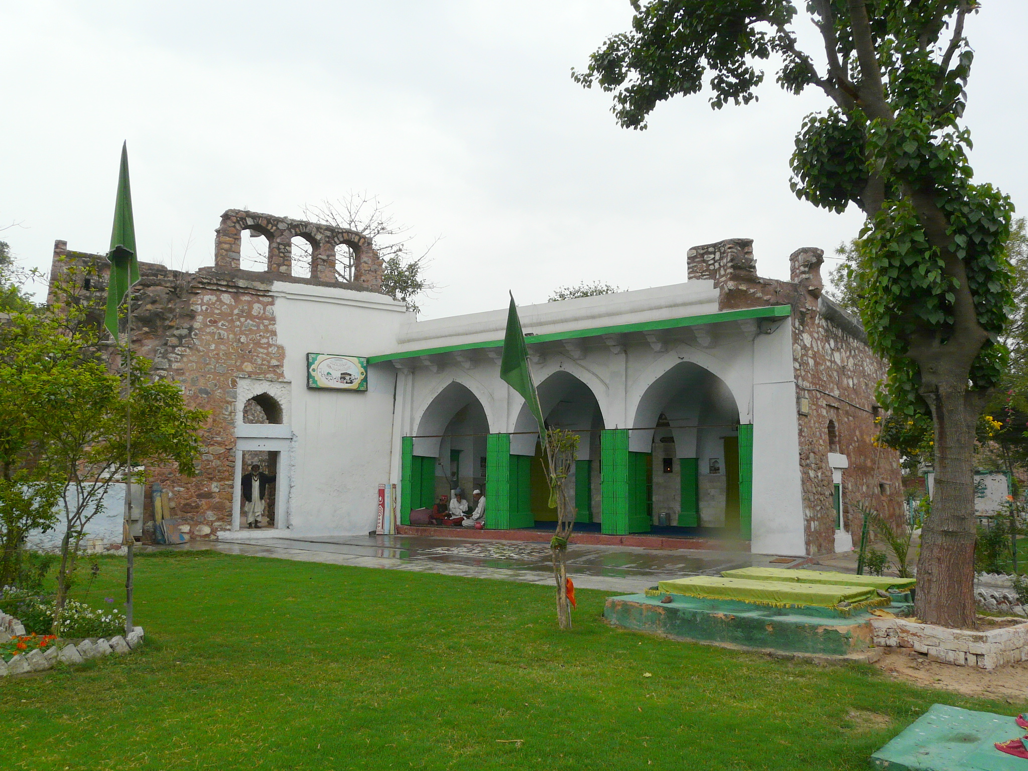 Chilla Nizamuddin, the residence of 13th-century Sufi saint, Nizamuddin Auliya lies outside the north-east corner of the Humayun's tomb complex, Delhi. Made in Tughlaq period architecture.